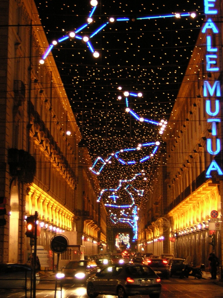 Christmas lights in Torino, Italia